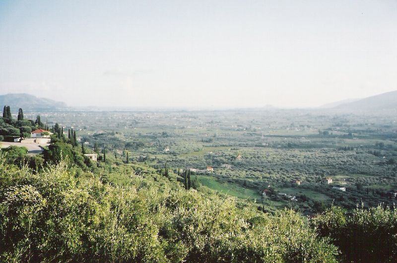 View on Zakynthos plain from Ano Gerakari, Zakynthos island, Greece.